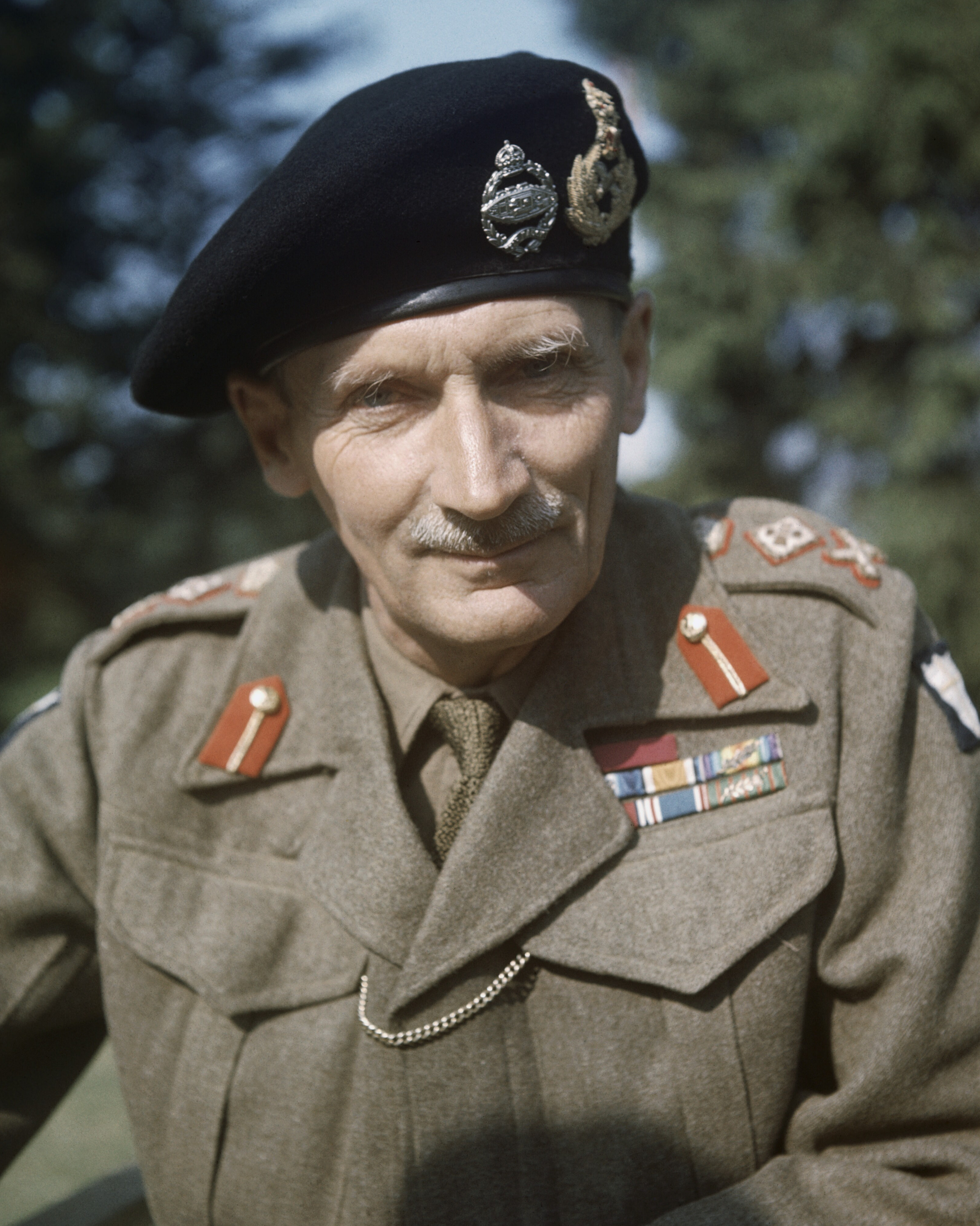 General Sir Bernard Montgomery in England, 1943